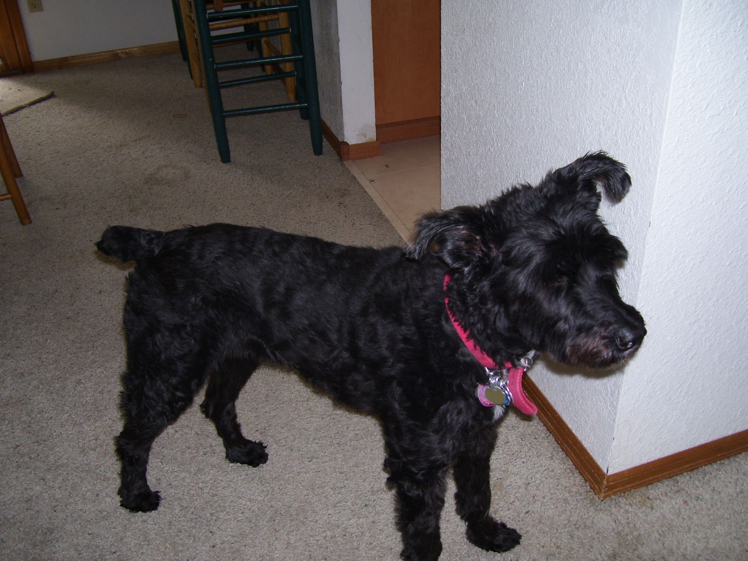 This is my Bouvier that has been shaved.